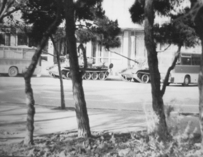 Tanks in front of the hotel "Azerbaidshan", Baku 1990 January/February.